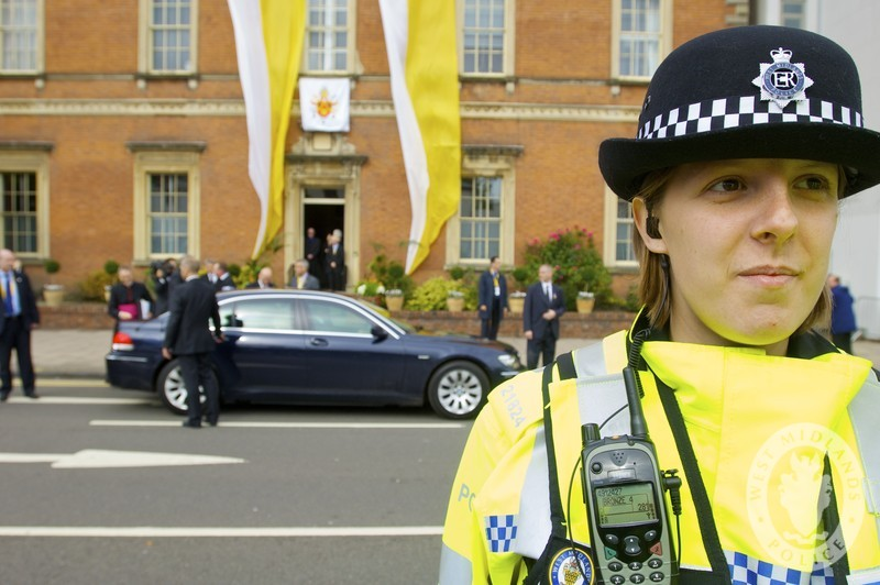 With Pope Benedict XVI retiring today, we thought we'd show a few images from his visit to Birmingham in September 2010.